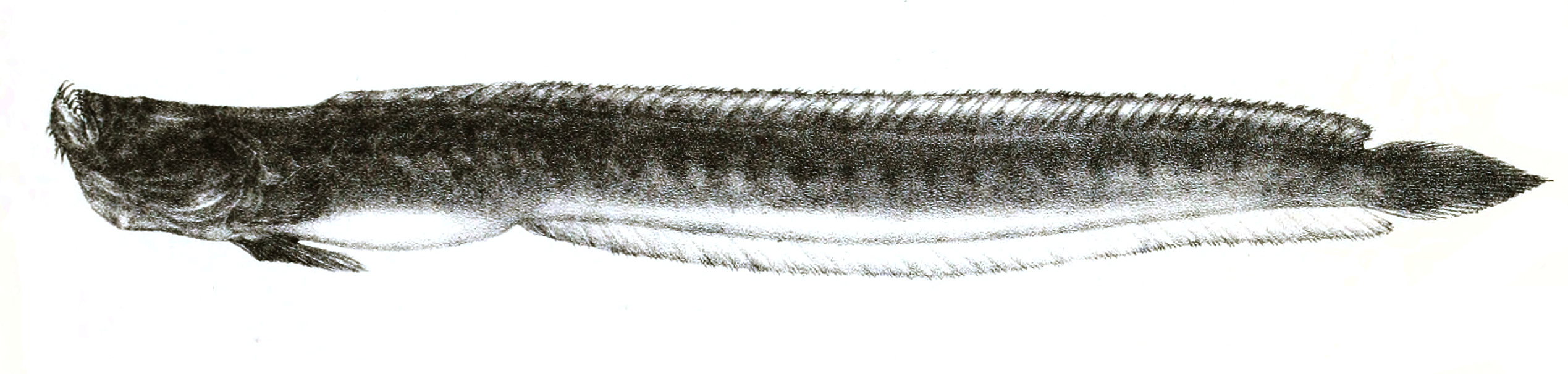 Taenioides cirratus syn. Gobioides cirratusThe species names / identity need verification. The original plates showed the fishes facing right and have been flipped here. Gobioides cirratus